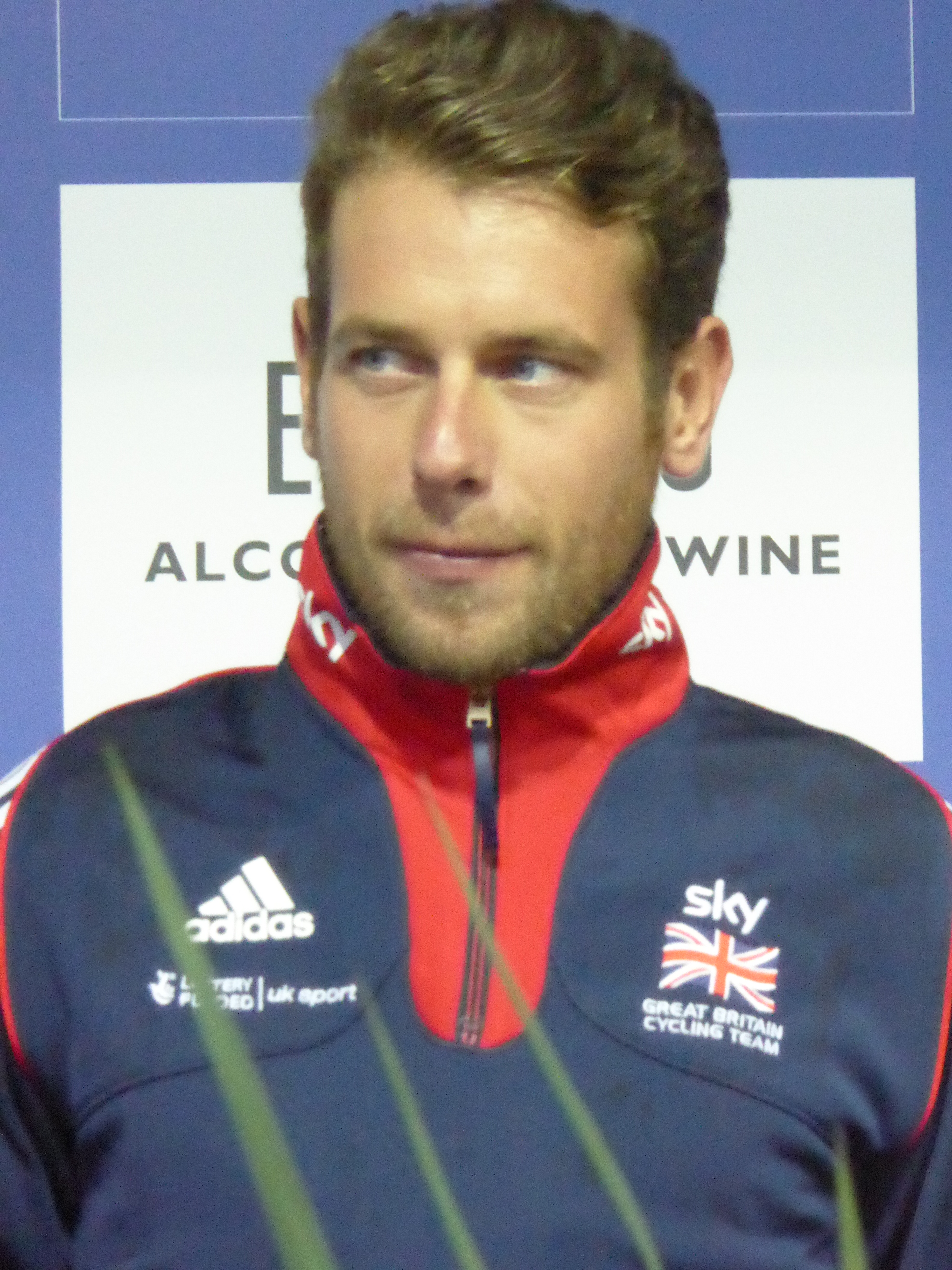 Adam Blythe (Great Britain national team), pictured at the 2016 Tour of Britain team presentation in Glasgow on 3 September 2016.